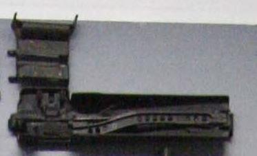 MG42 case cap